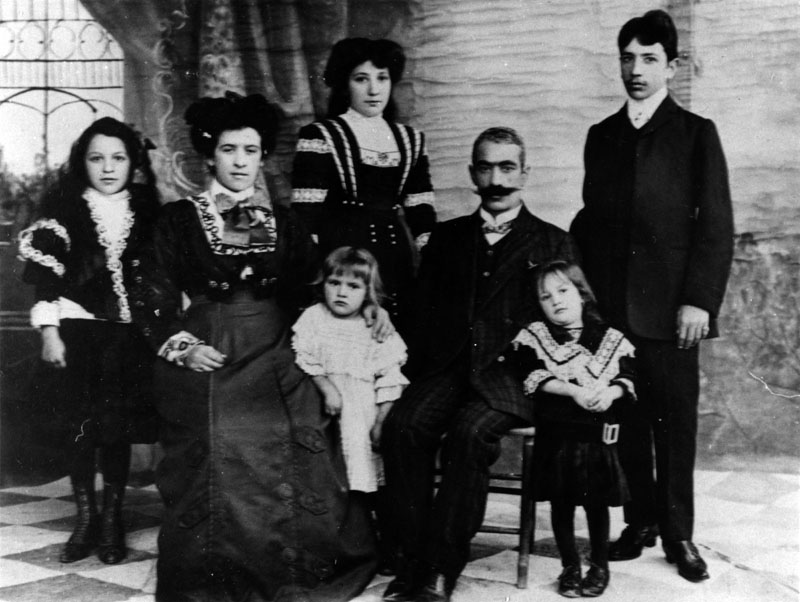 Portrait of the Gazarian family in Boston, 1908. (Left to Right)-Alice, Azniv, Gladys (small child), Lucy, Toros, Olga, and Ted Ghazarian. Ted was the first Armenina graduate at MIT.